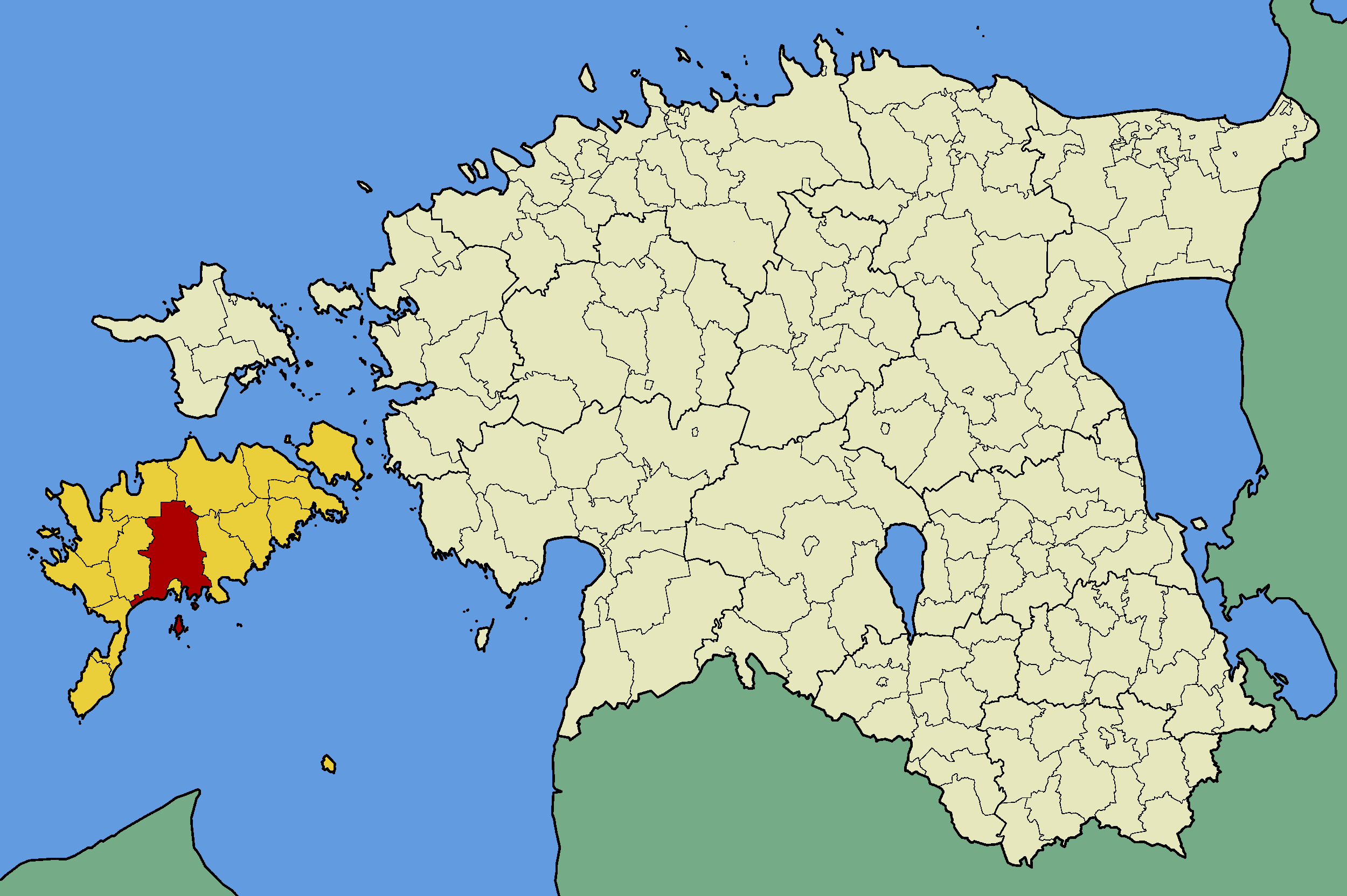 Map of Estonia with borders of municipalities (parishes). Saare county and Kaarma municipality emphasized.